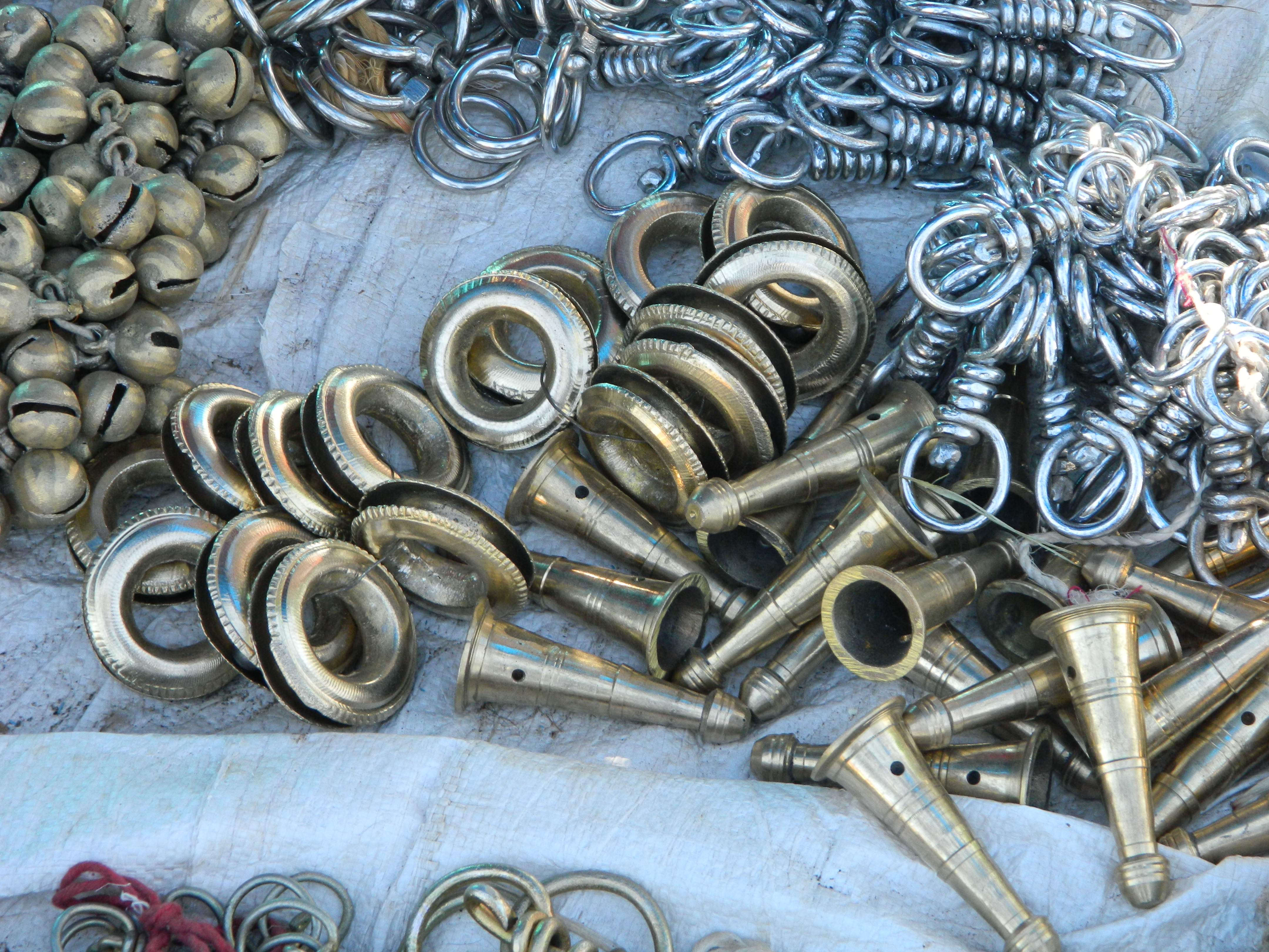 A close-up of cattle ornamentals